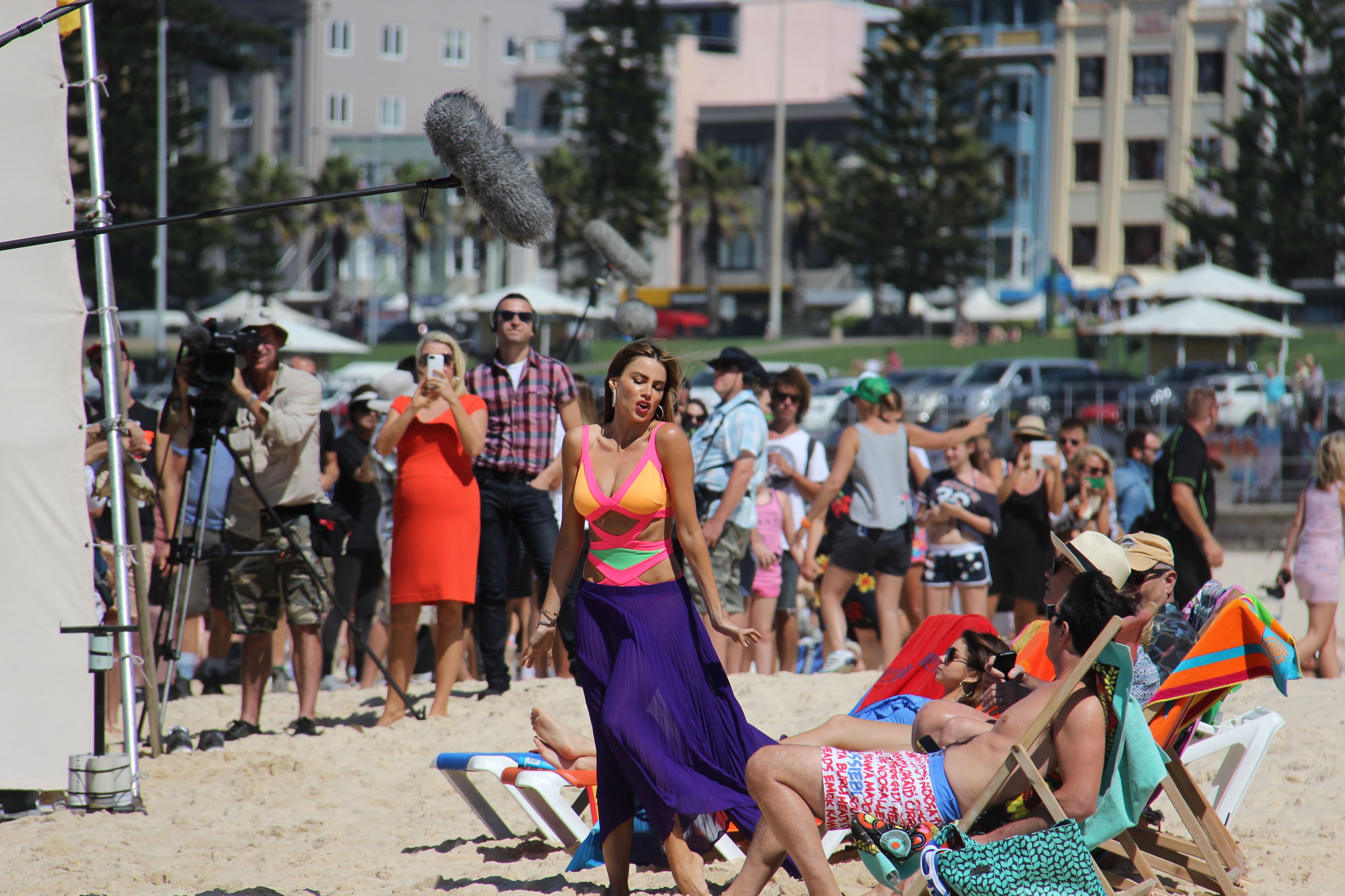 Modern Family filming on Bondi Beach, Sydney, Australia